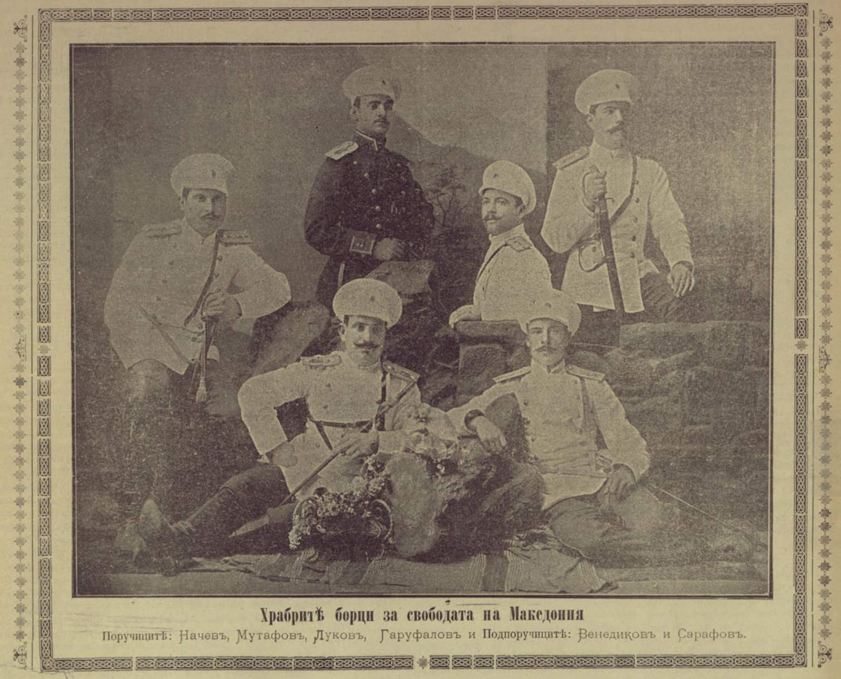 Nachev, Mutafov, Lukov, Garufalov, Venedikov, Sarafov